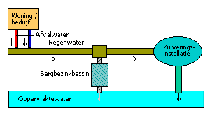 Sewerage and rain water combined processing.